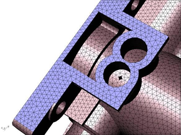 Automatic meshing of a set of solids.